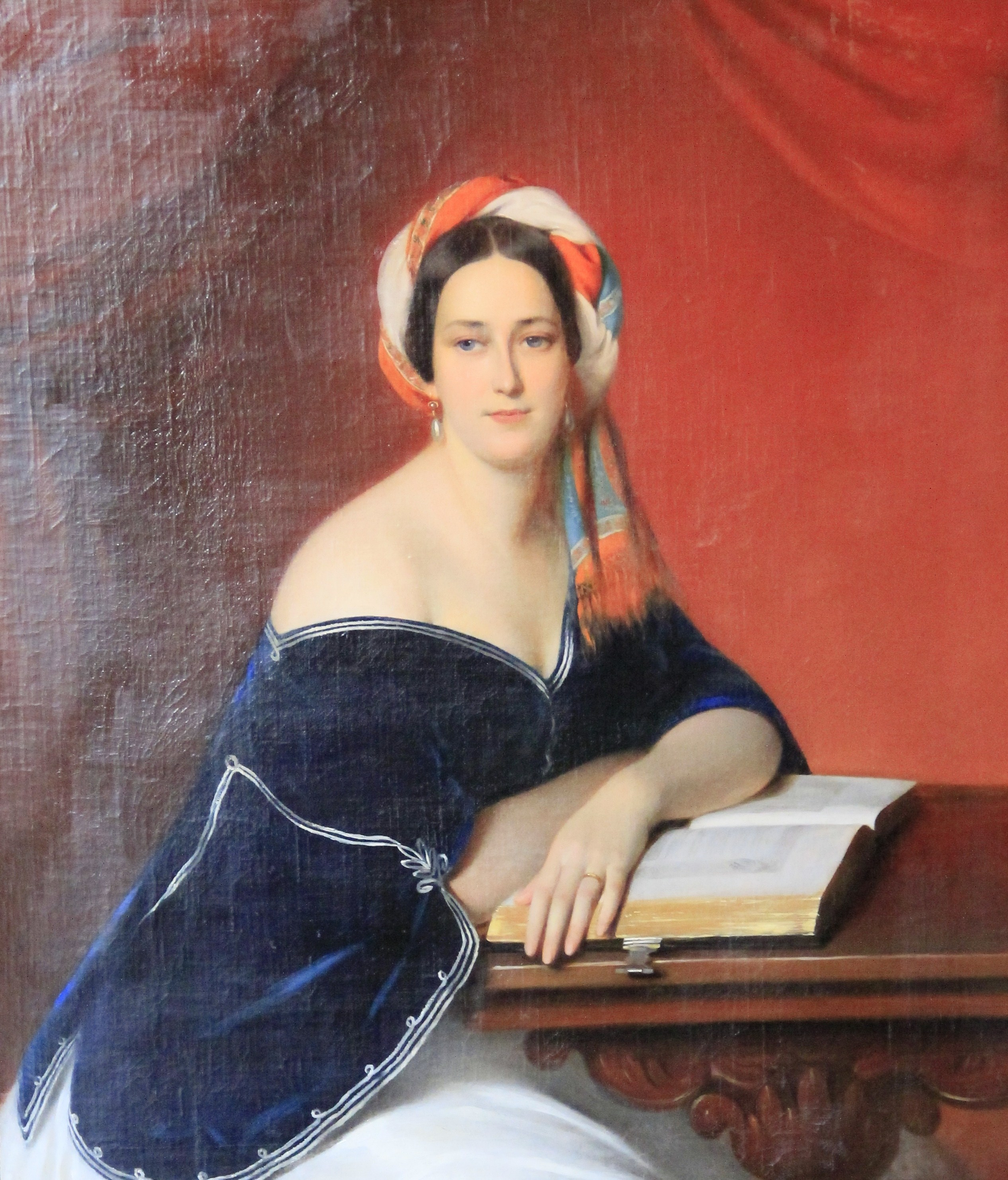 Emilia Potocka, second wife of Mieczysław Potocki. private collection. castle Montresor (France)(not Delfina Potocka)